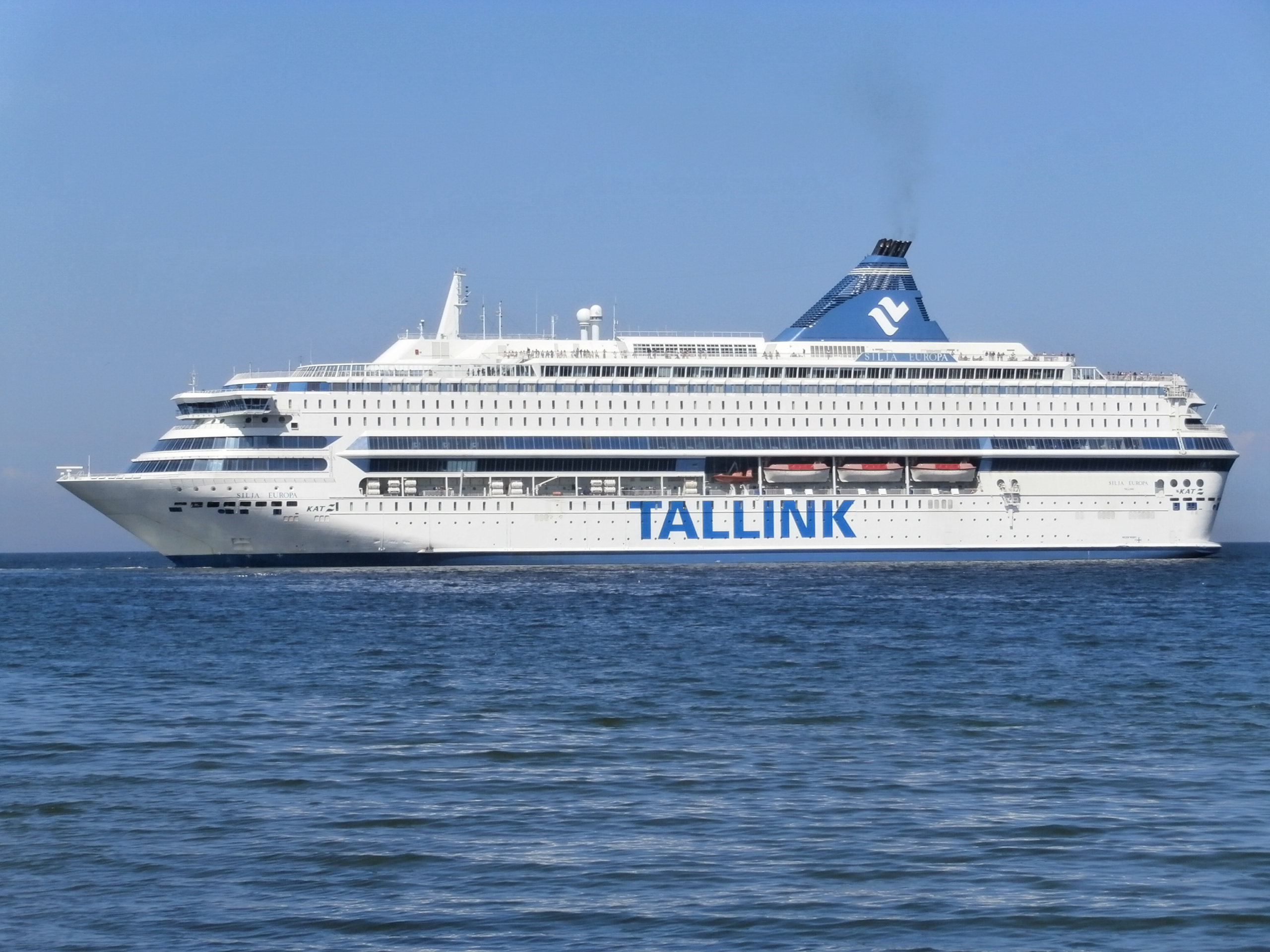 Ferry Silja Europa departing Tallinn Estonia 3 August 2013